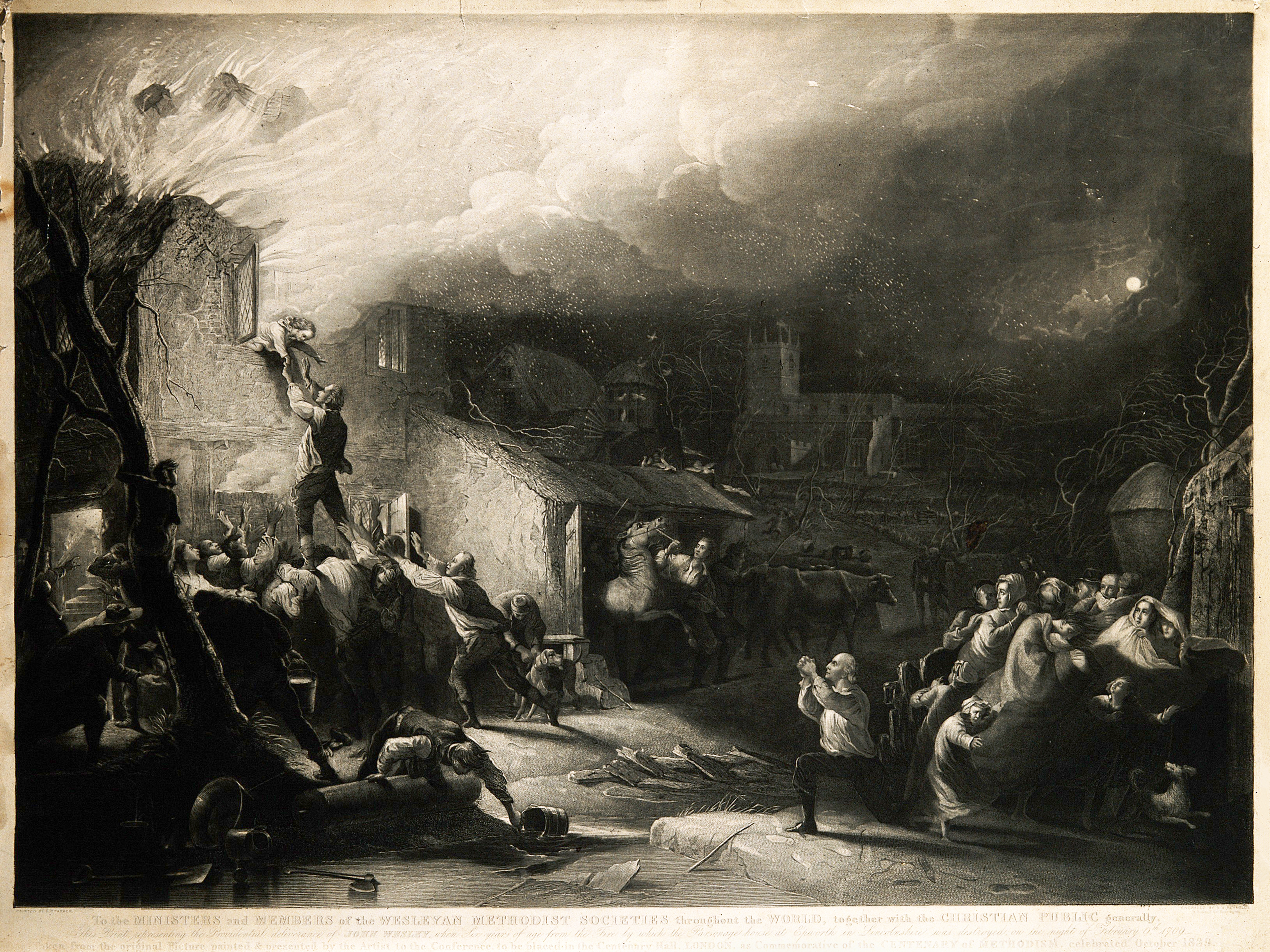 The rescue of the young John Wesley from the burning parsonage at Epworth, Lincolnshire. Mezzotint by S.W. Reynolds after H.P. Parker. Iconographic Collections Keywords: John Wesley; Samuel William Reynolds; Susannah Wesley; Henry Perle Parker; Charles Wesley